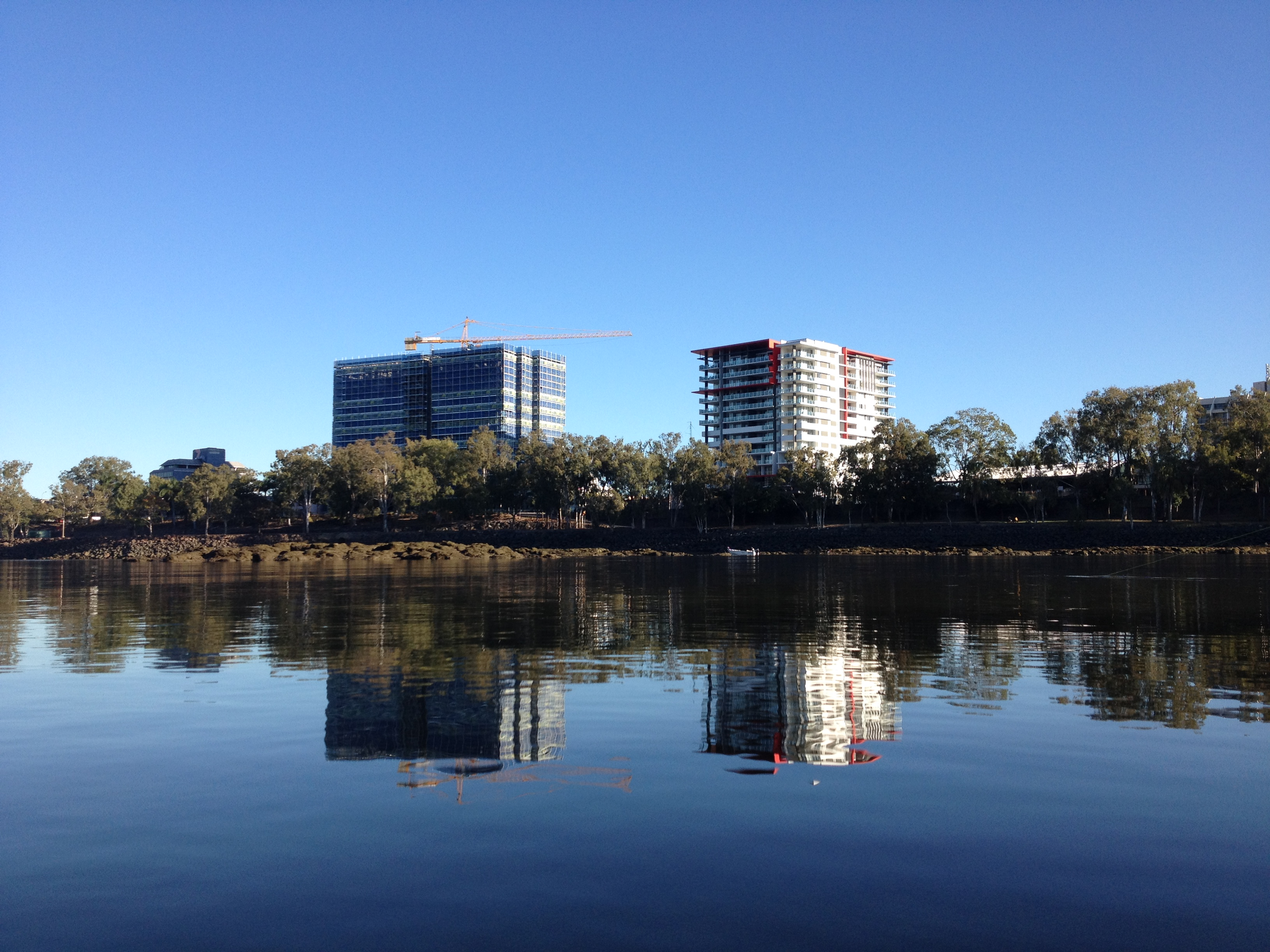 Rockhampton City High rises from Fitzroy River